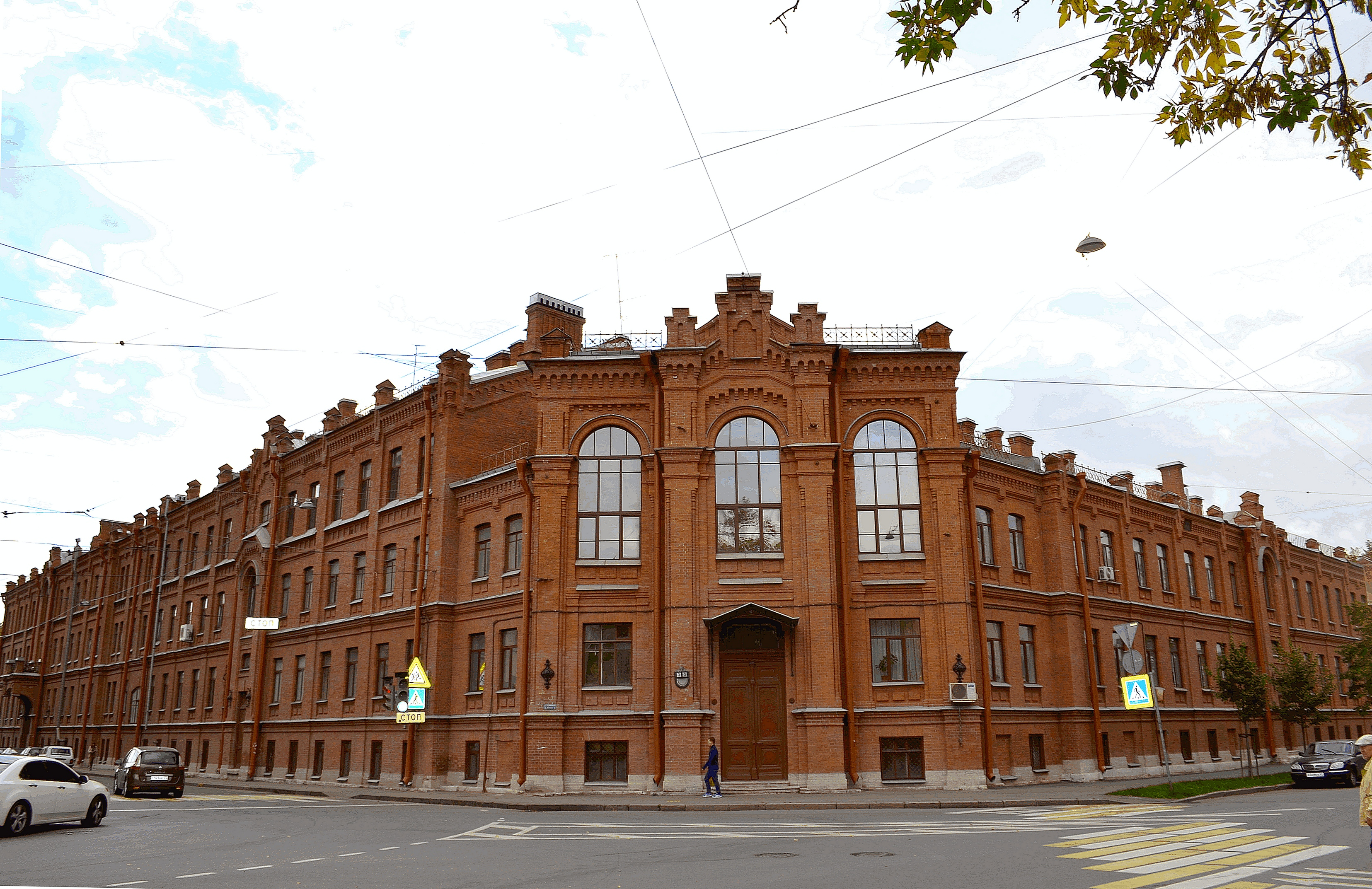 St. Petersburg. Starorusskaya str., 3/2. The complex of buildings of the Community Hospital of St. Eugenia. Main building. (the revealed object of historical, scientific, artistic or other cultural value).